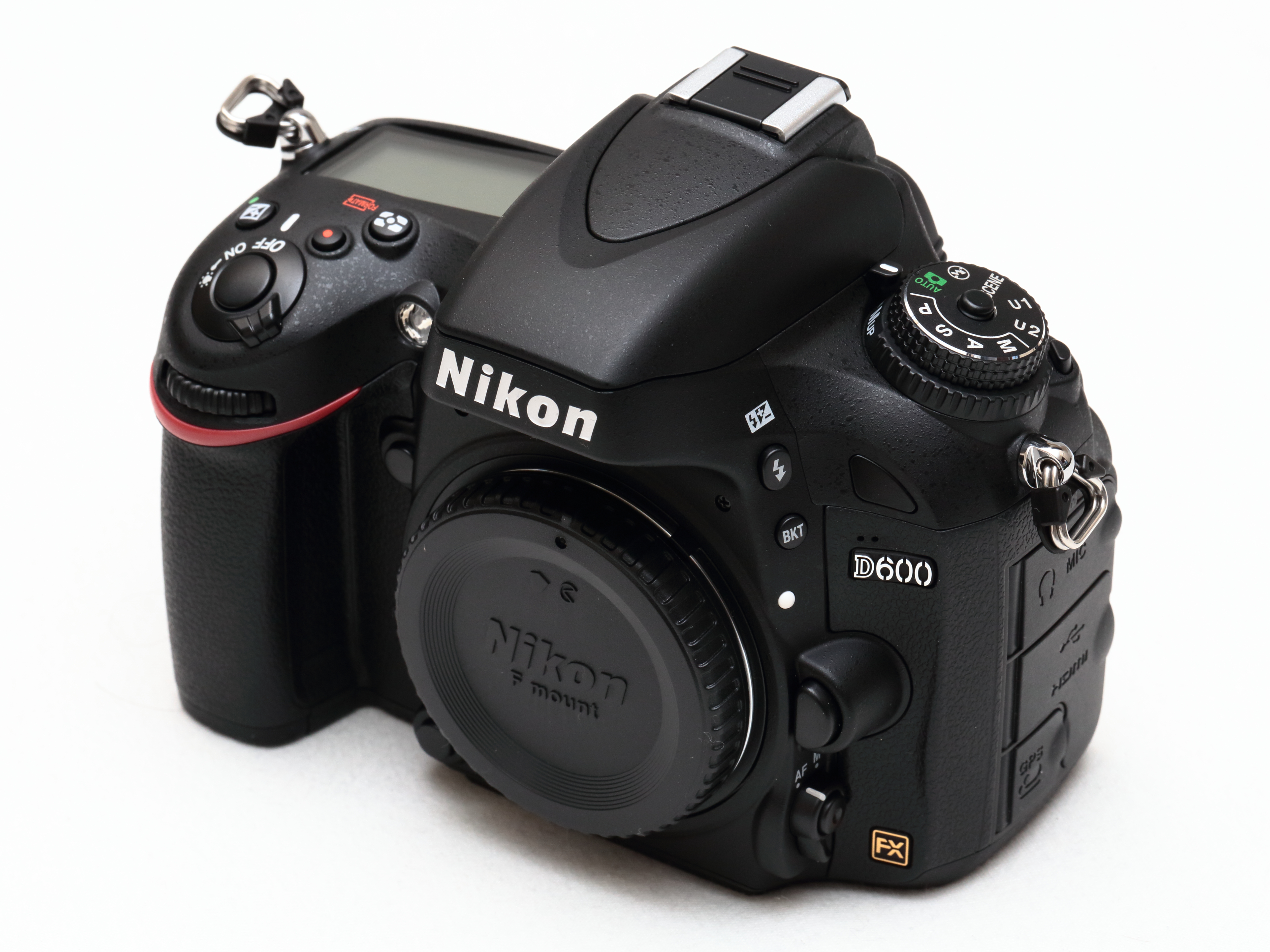 Nikon D600 digital single-lens reflex camera announced in September 2012.